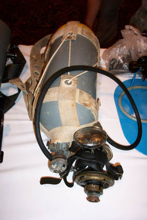 An example of the world's first commercially available, single hose SCUBA unit designed and manufactured by Ted Eldred in 1952. Original was: Photo taken in 2003 of one of the first Porpoise single hose Scuba units, released in 1052.